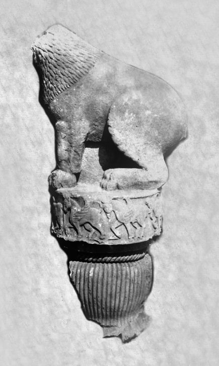 Udayagiri lion capital. See drawing and detail: Capital from Udayagiri near Vidisha. Udayagiri lion capital detail.